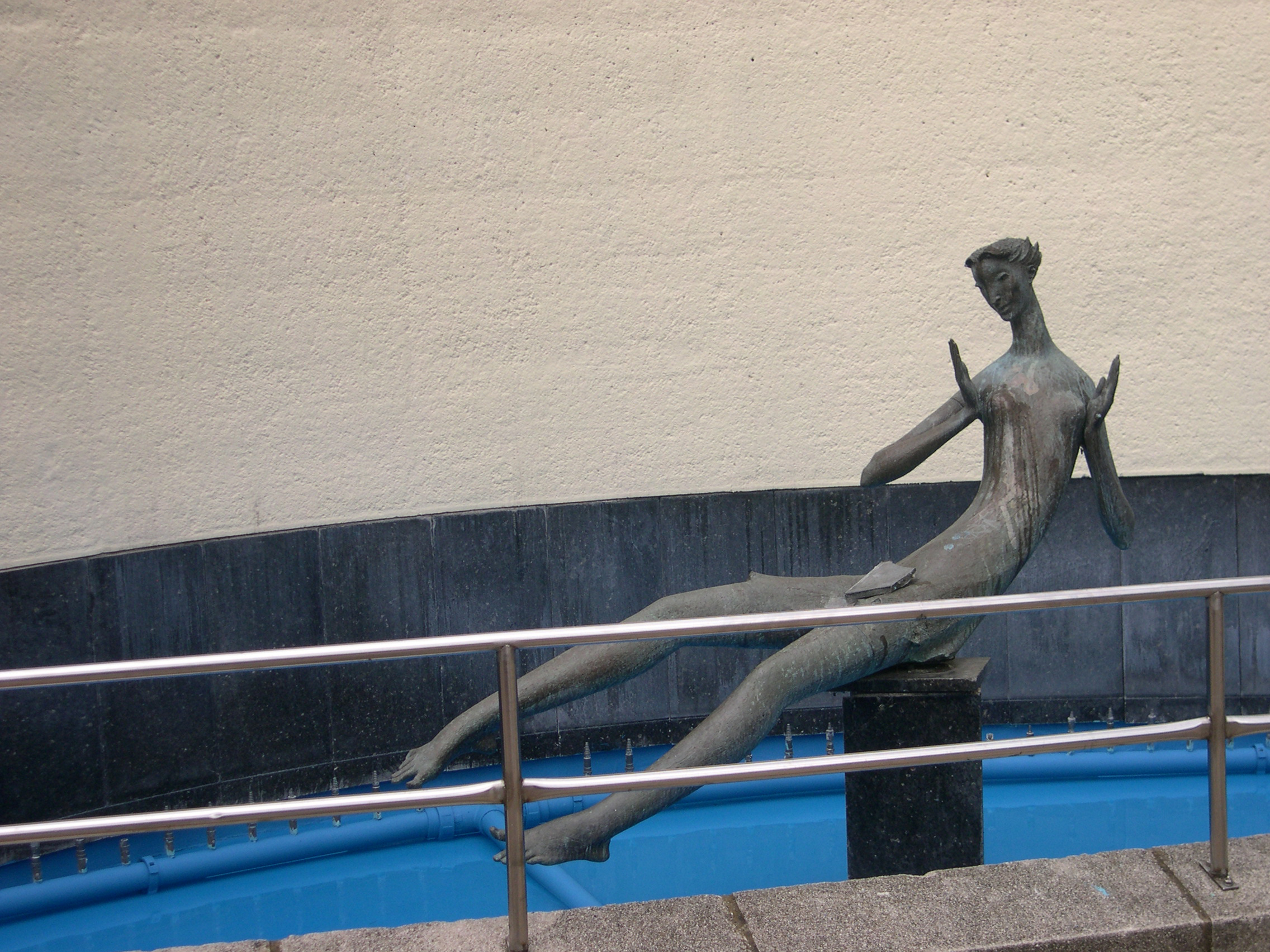 Fountain with sculpture, Crouch End, London N8 View of reclining figure in bronze at the fountain outside Hornsey Central Library. The sculptor was Thomas Huxley-Jones (1908-1968)